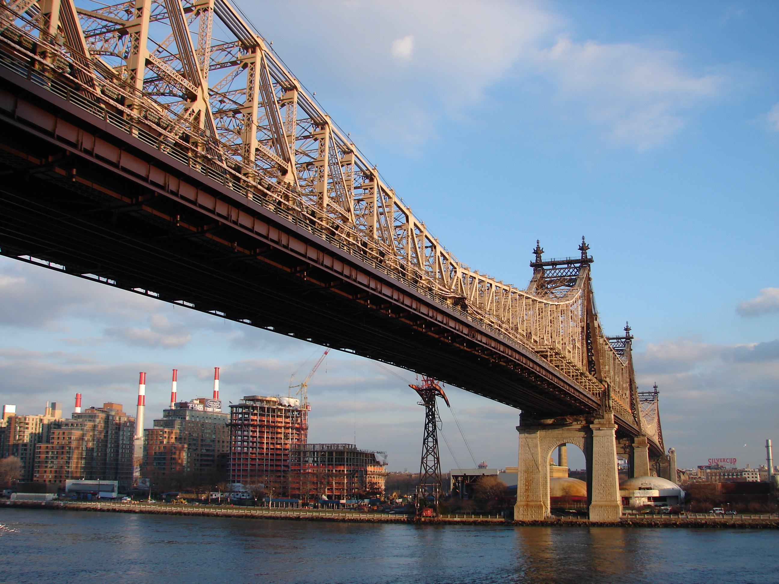 The Queensboro Bridge between Manhattan Island and Queens in New York